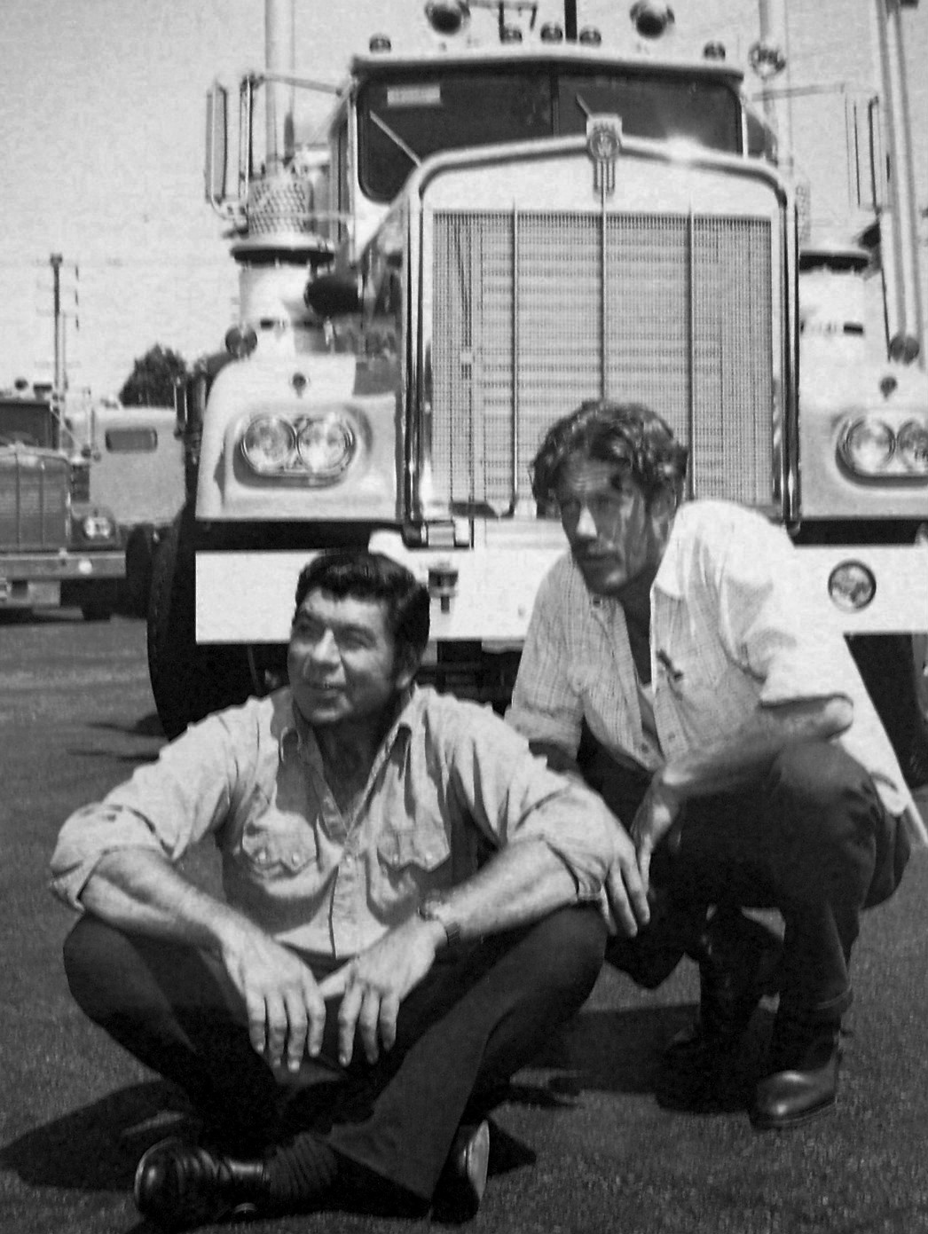 Photo of Claude Akins (seated) and Frank Converse from the premiere of the television series Movin' On.